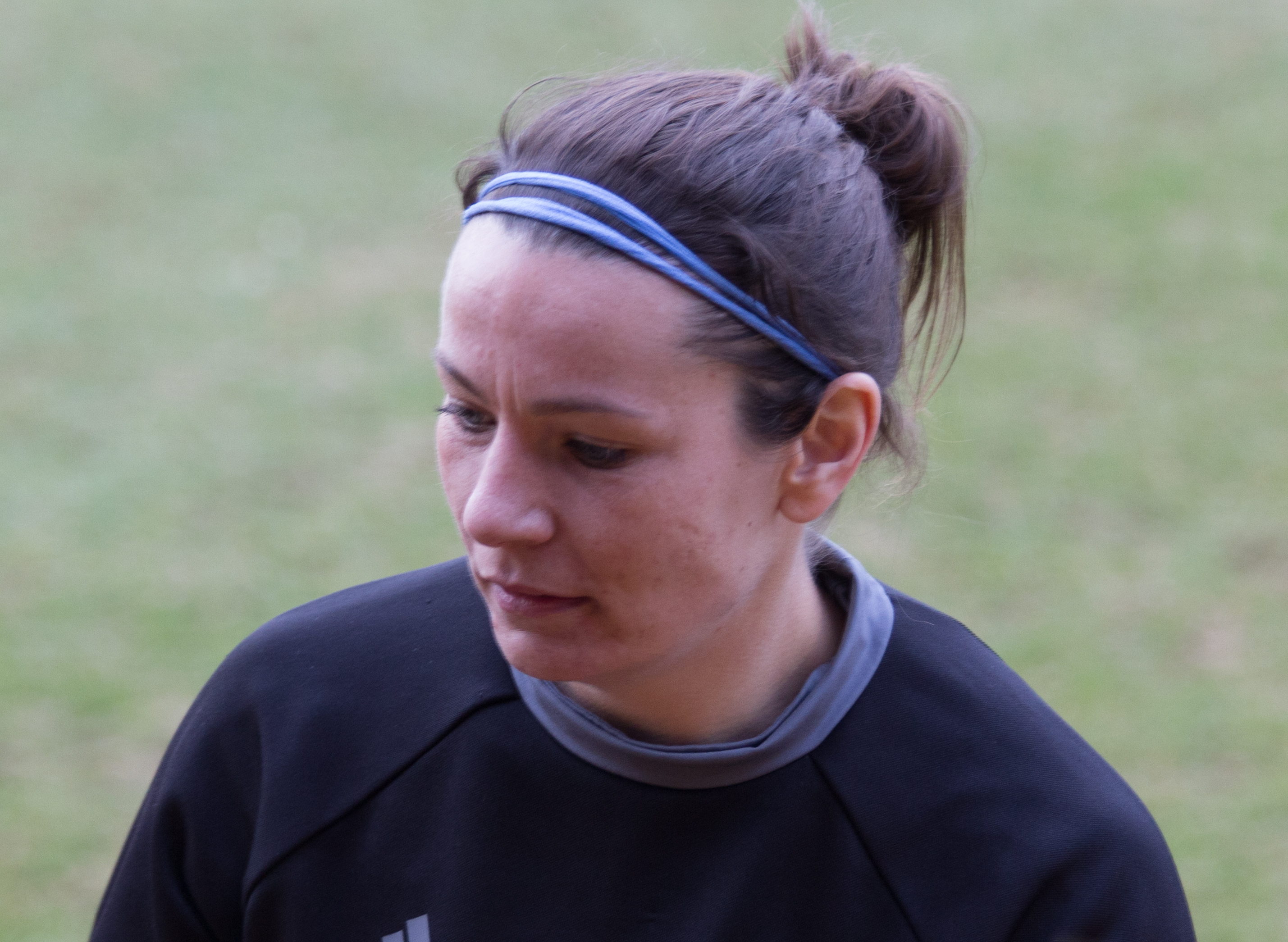 Arsenal LFC (Red) v Kelly Smith All-Stars XI (Yellow), 19 February 2017 – post-match